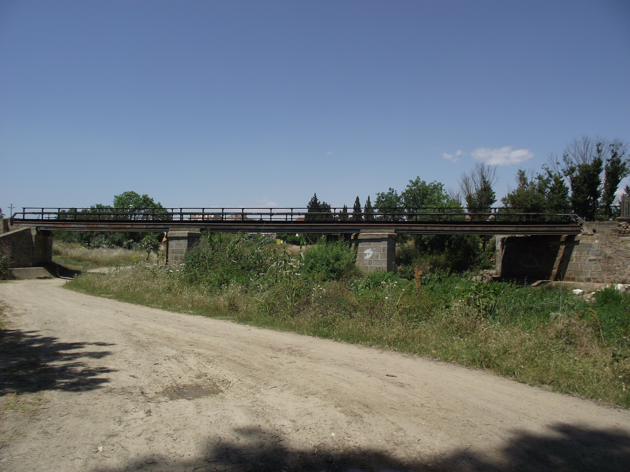 The railway bridge above the Cixerri river in Siliqua, Sardinia, Italy, along the FS Iglesias–Decimomannu railway.